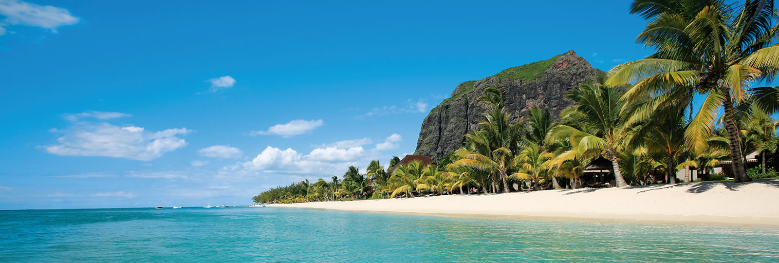 LUX* Le Morne, 5* Hotel in Mauritius